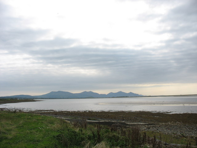 Looking south into Foryd Bay, Gwynedd, Wales.